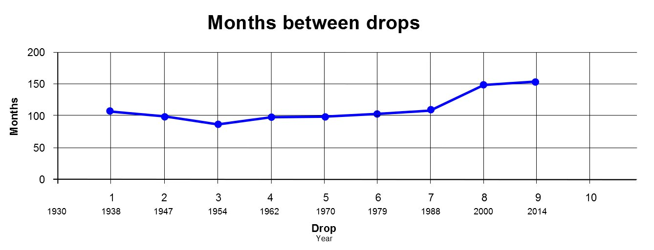 A graph showing the relationship between the months between drop falls.